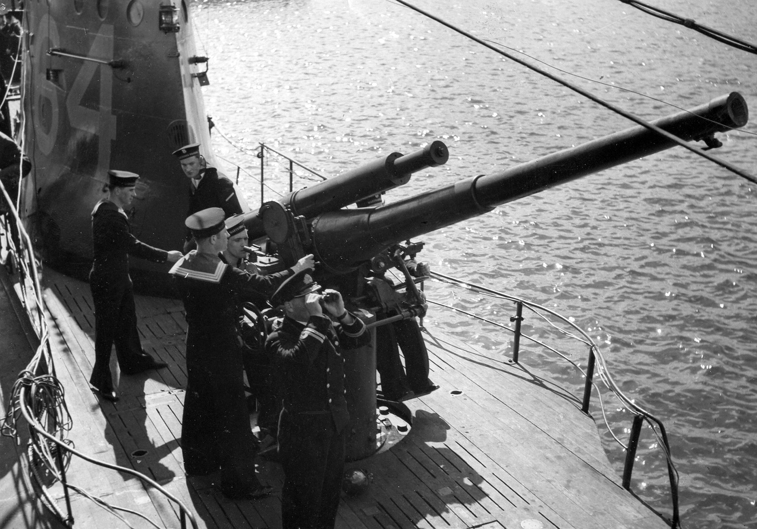 Artillery of the Polish Submarine ORP Wilk